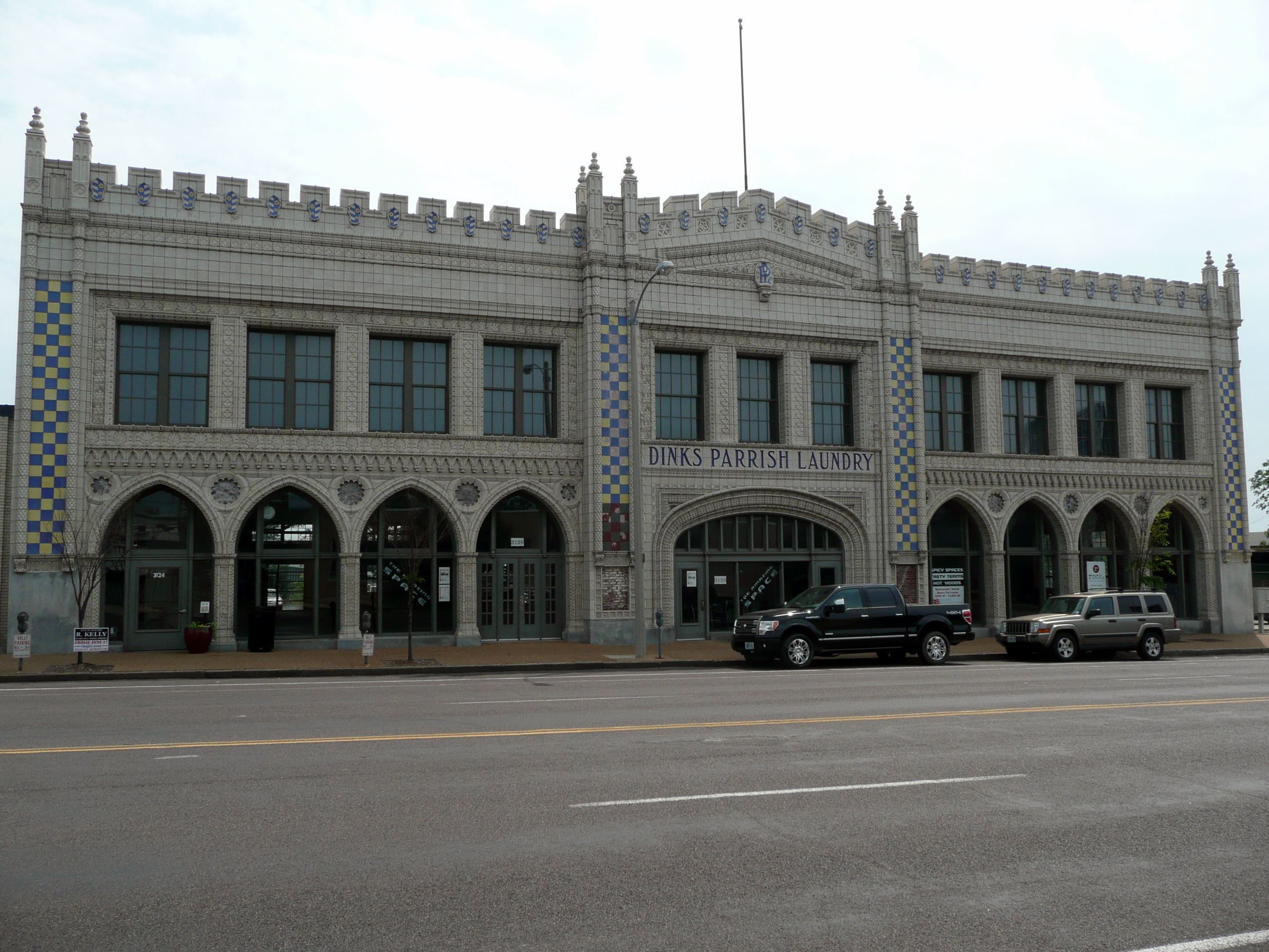 3124 Olive Street. Built in 1926, the Dinks Parrish Laundry building later housed Morgan Linen Supply company and has been renovated with a jazz club and a restaurant on the first floor and loft apartments above.